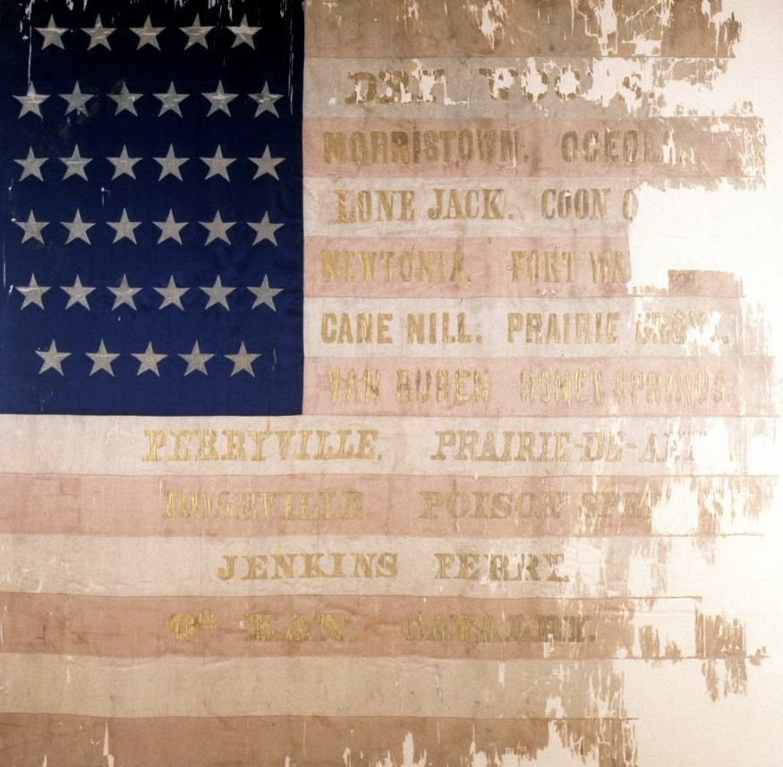 6th Kansas Cavalry flag, Kansas Historical Society